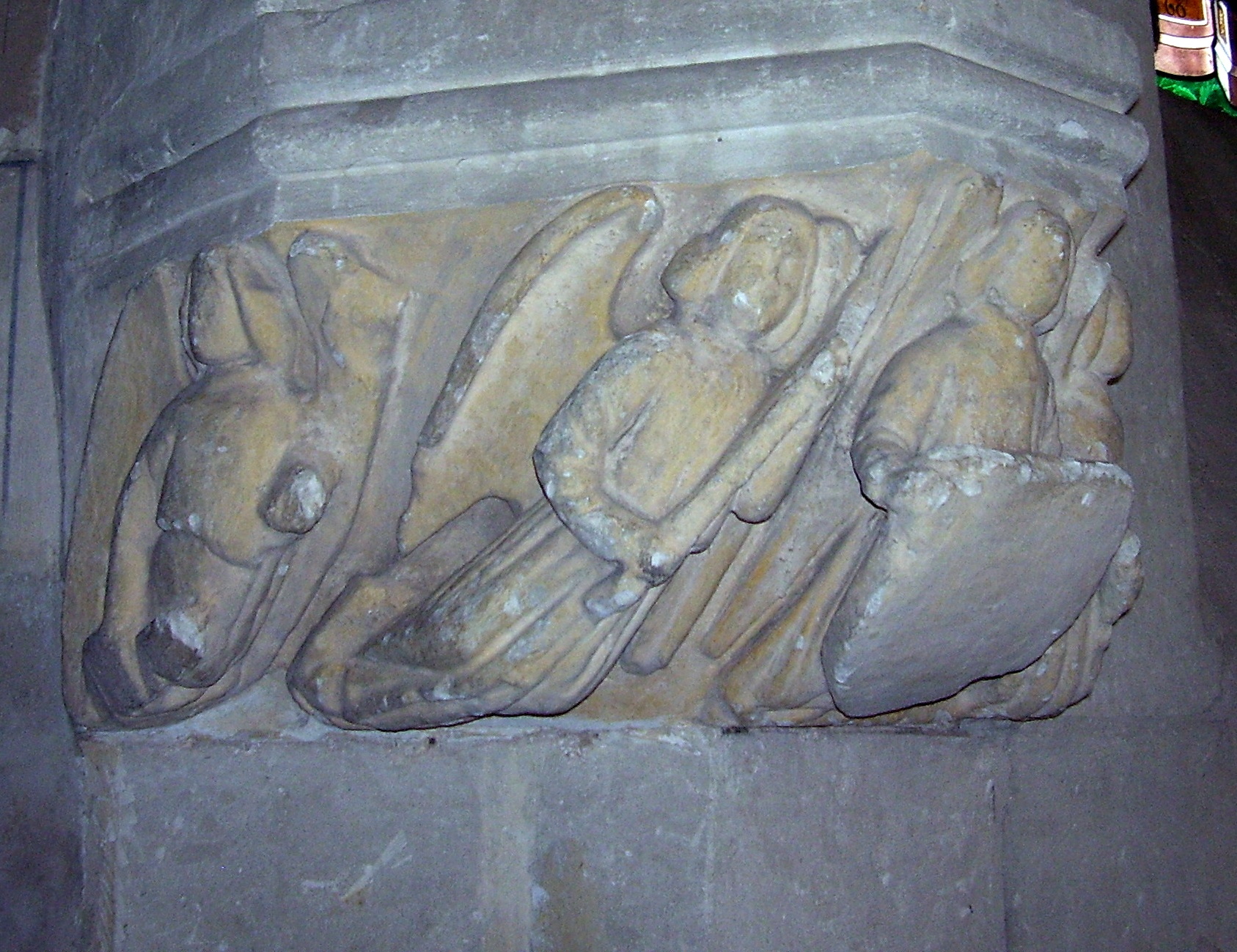 Ornaments on a pillar in the church Saint-Martin in Broglie, département Eure, in Frace.